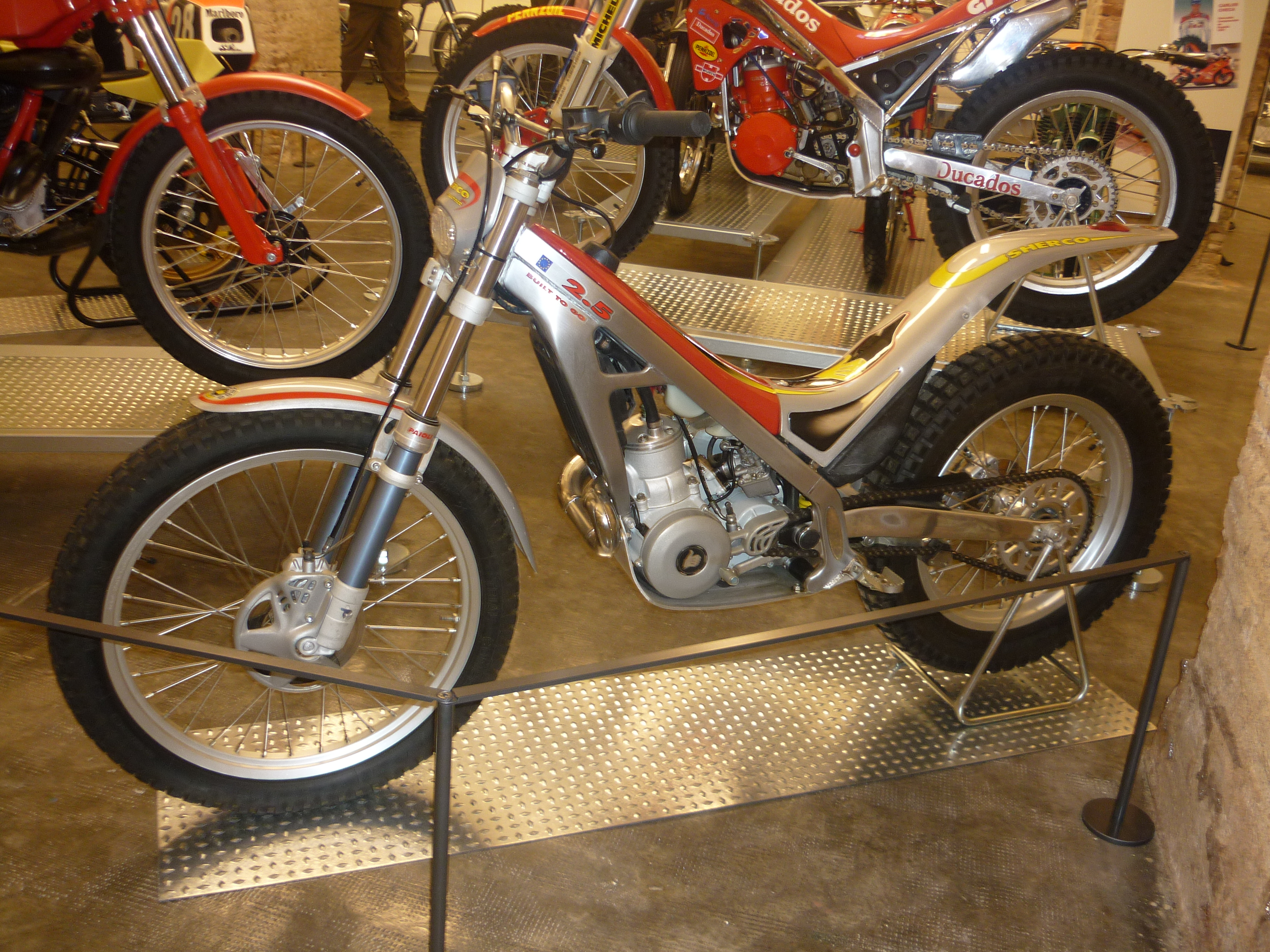 Sherco Bultaco 250cc 1998, the first model of the company, made in Caldes de Montbui (Catalonia). Museu de la Moto de Barcelona (Catalonia).